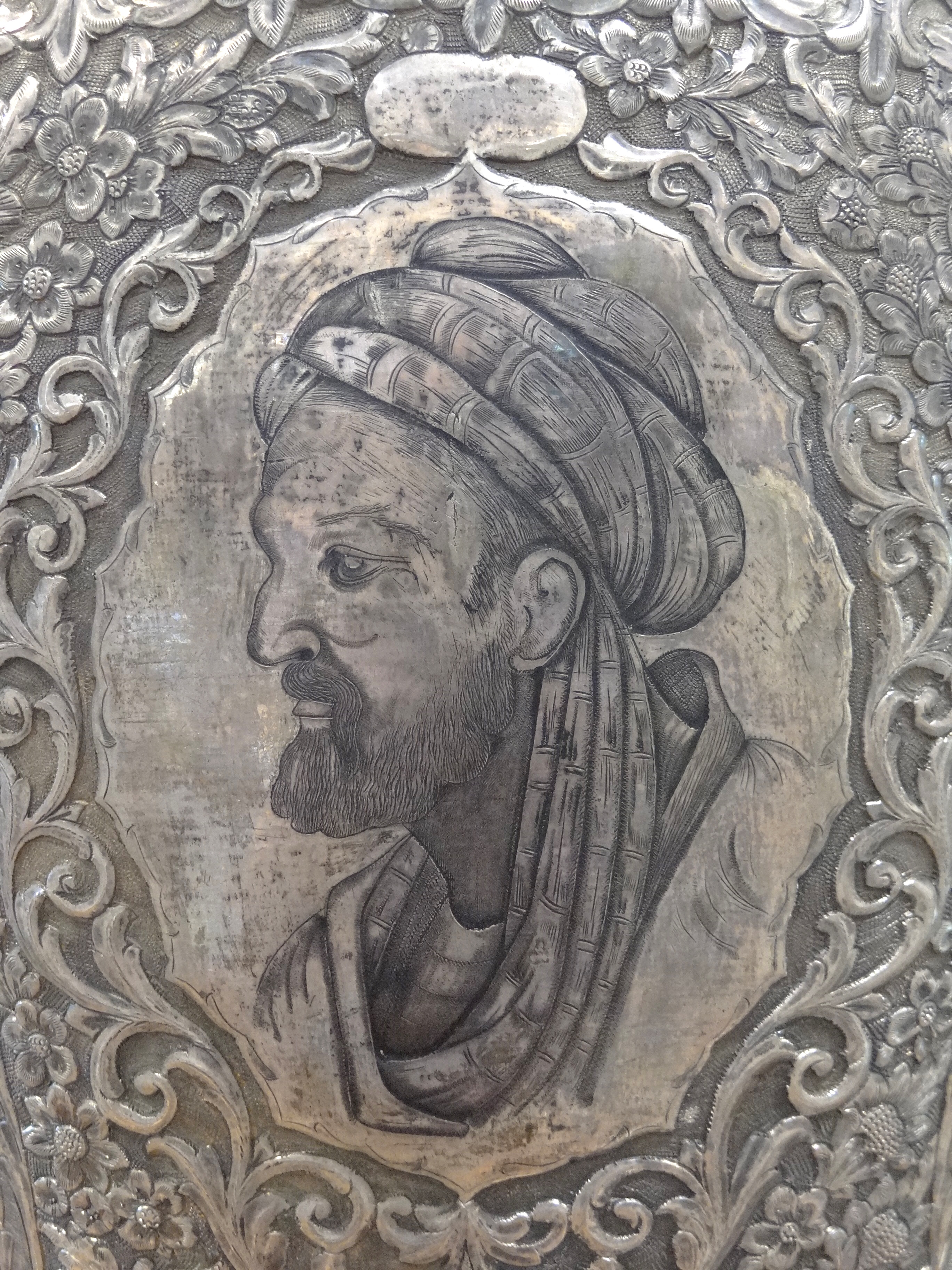 Avicenna Portrait on Silver Vase - Museum at BuAli Sina (Avicenna) Mausoleum - Hamadan - Western Iran